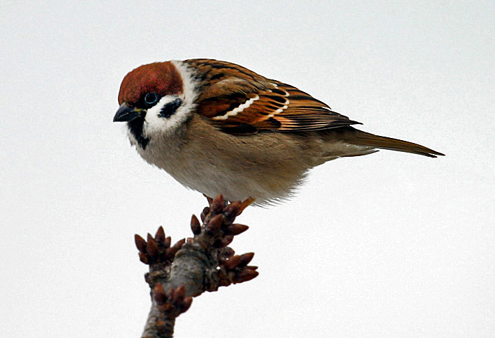 Eurasian Tree Sparrow